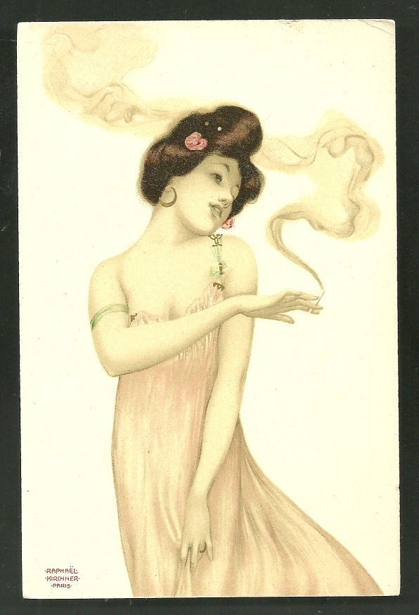 Art Nouveau colour postcard by Raphael Kirchner